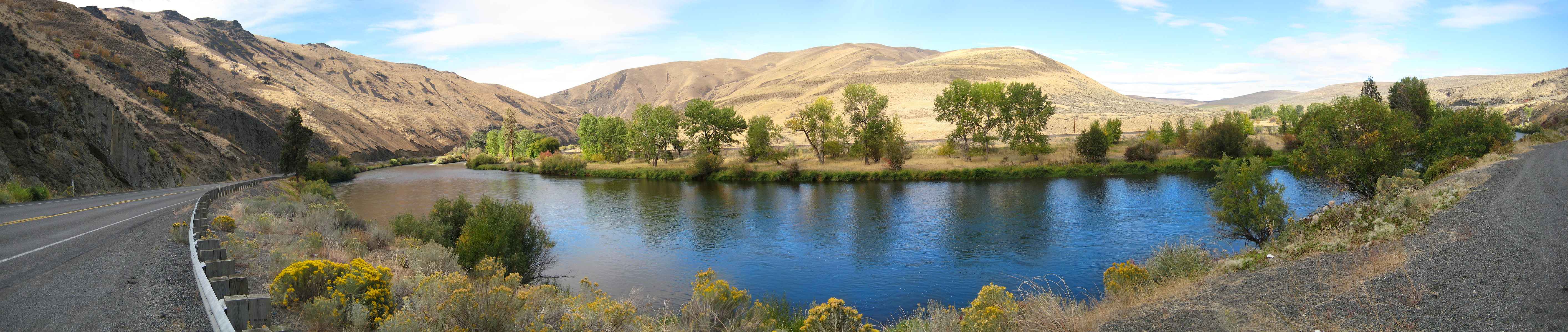 180° panorama of the Yakima River as viewed from Highway 821. Photo by Gregg M. Erickson.